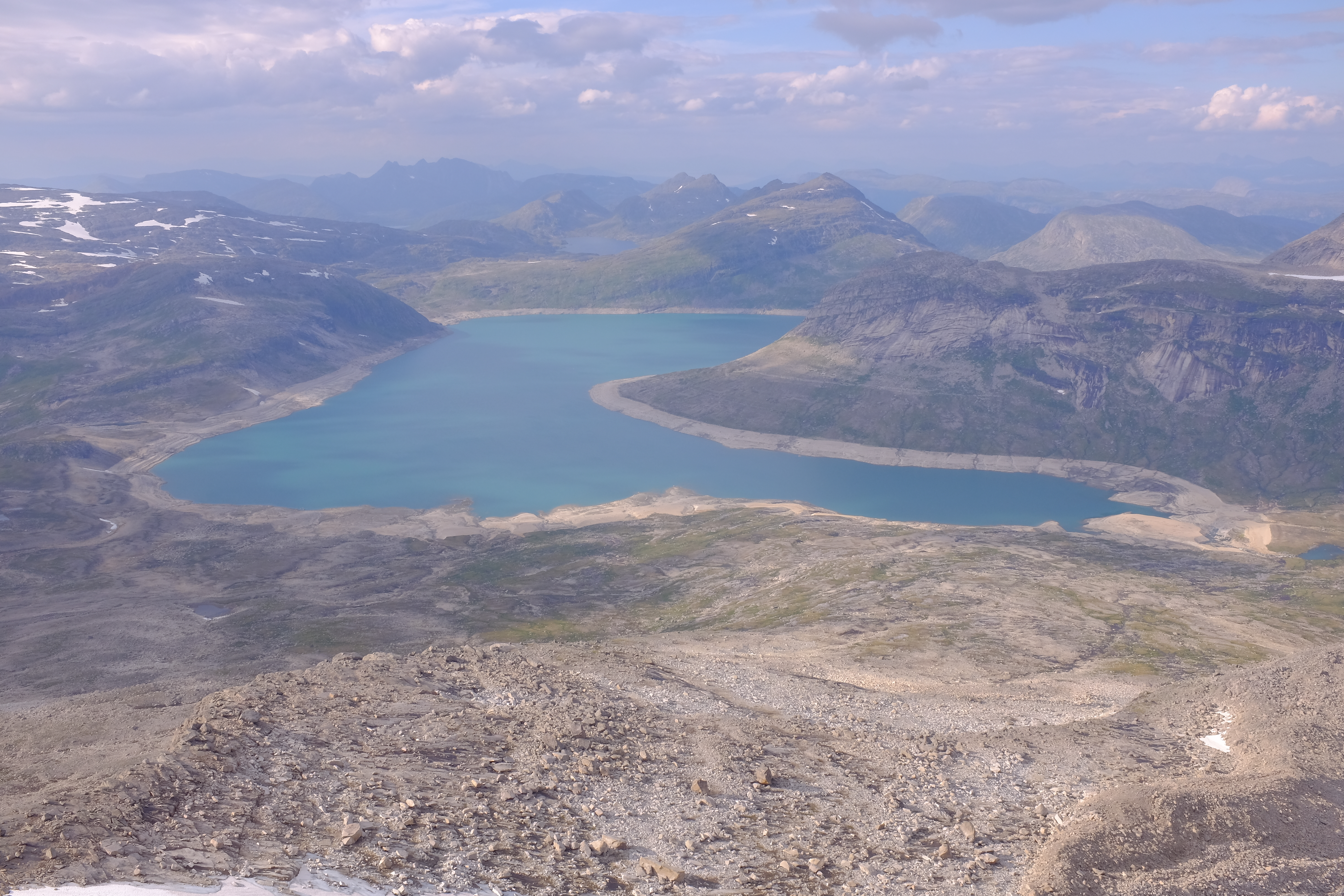 The view beyond Livsejávrre lake north of Reinoksjellet, Sørfold, Nordland.